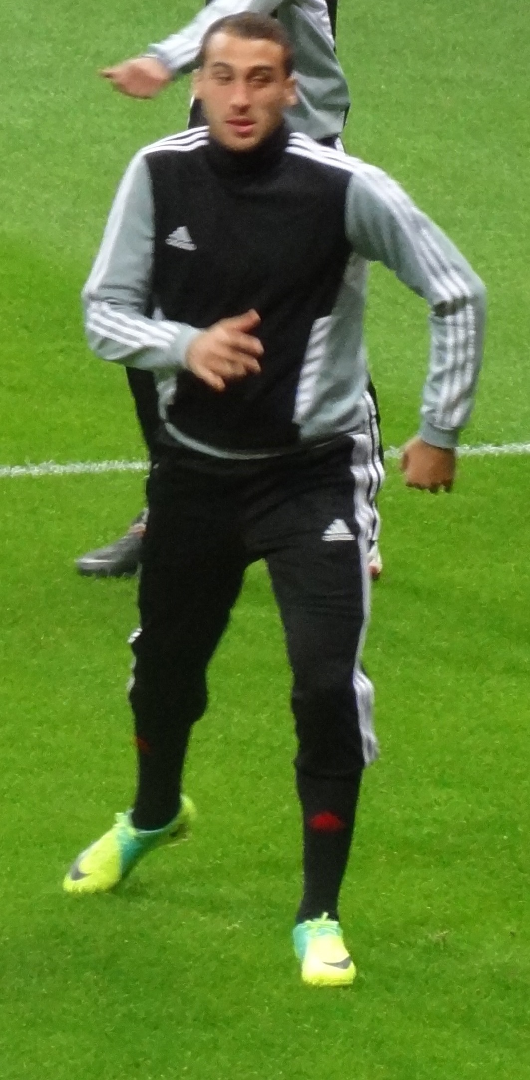 cenk against galatasaray